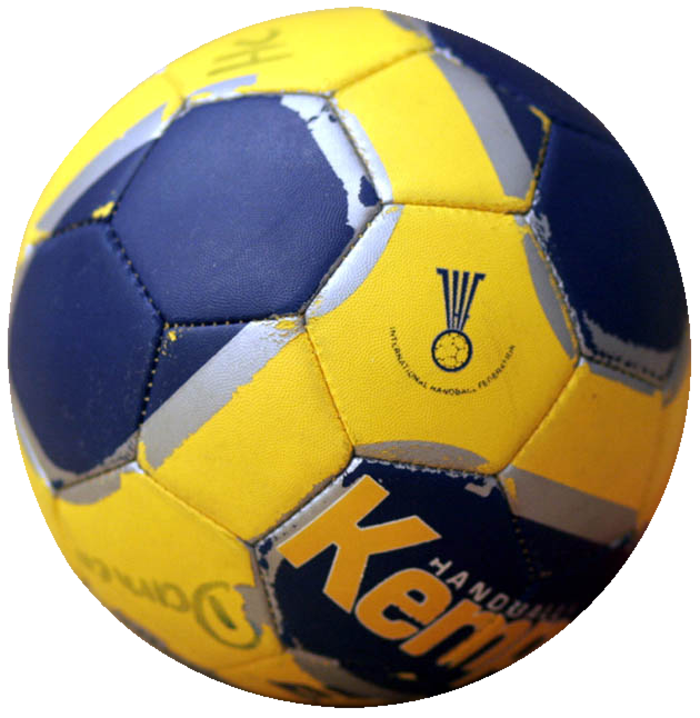 A ball used in handball.